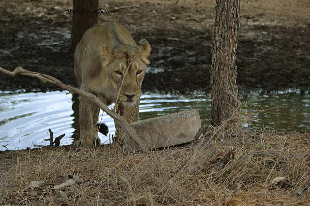 A young Indian Lion in Gir Forest